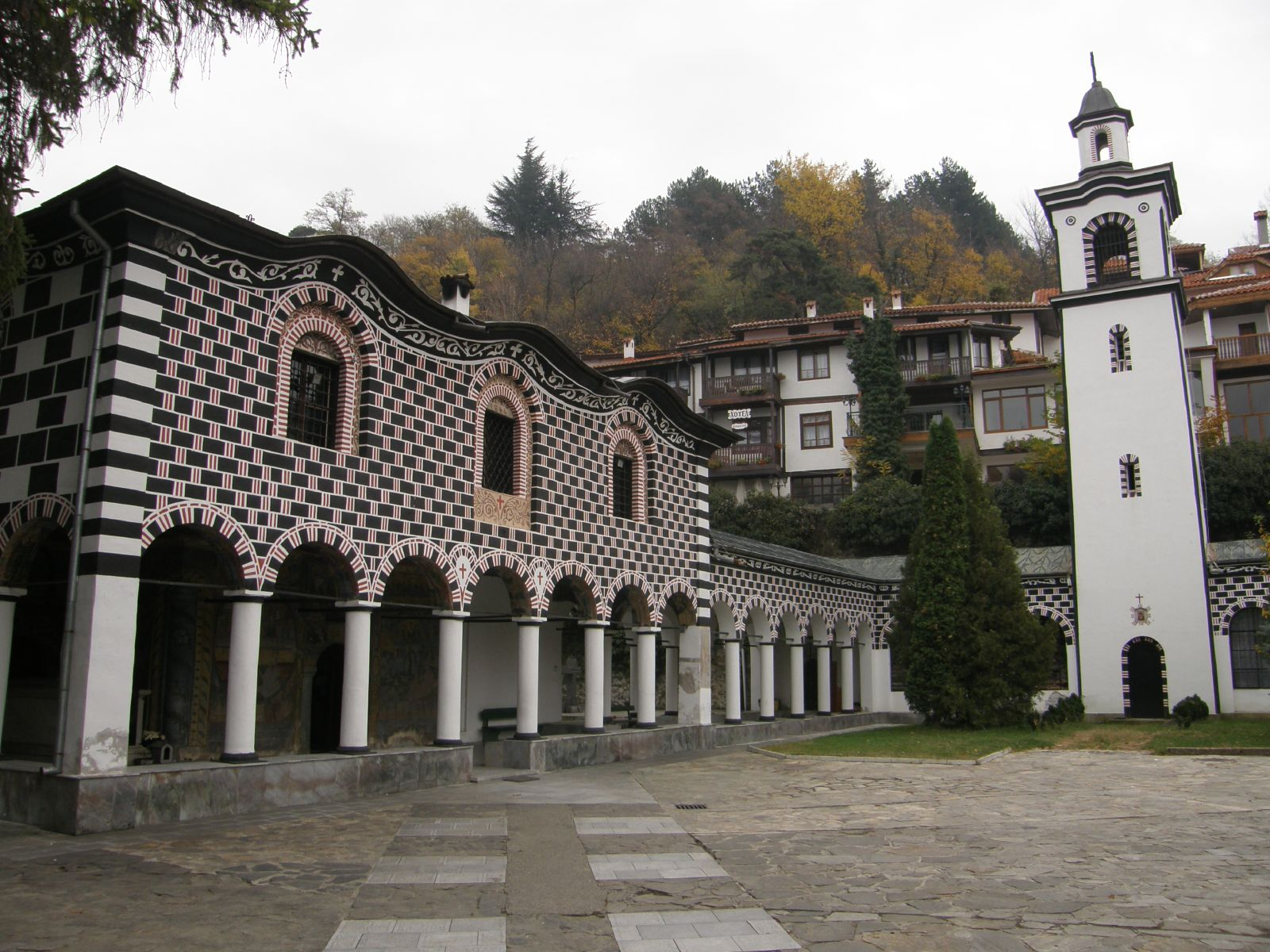 The church of the Presentation of Virgin Mary at the traditional quartet of Varosha at Blagoevgrad, Bulgaria .